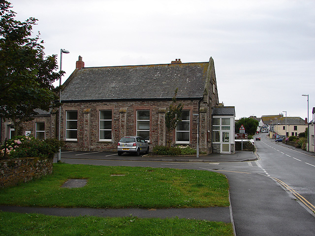 Community Hall, Bossiney Road, Tintagel This appears to be an old schoolroom. The building is at the very west of the square. It is in fact the Social Hall built for the villagers.